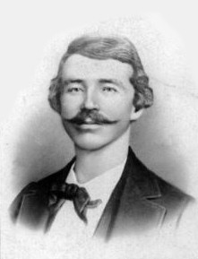 Quantrill from LOC archive. Feartured in the 1914 publication of "Three years with Quantrell; a true story" (1904).